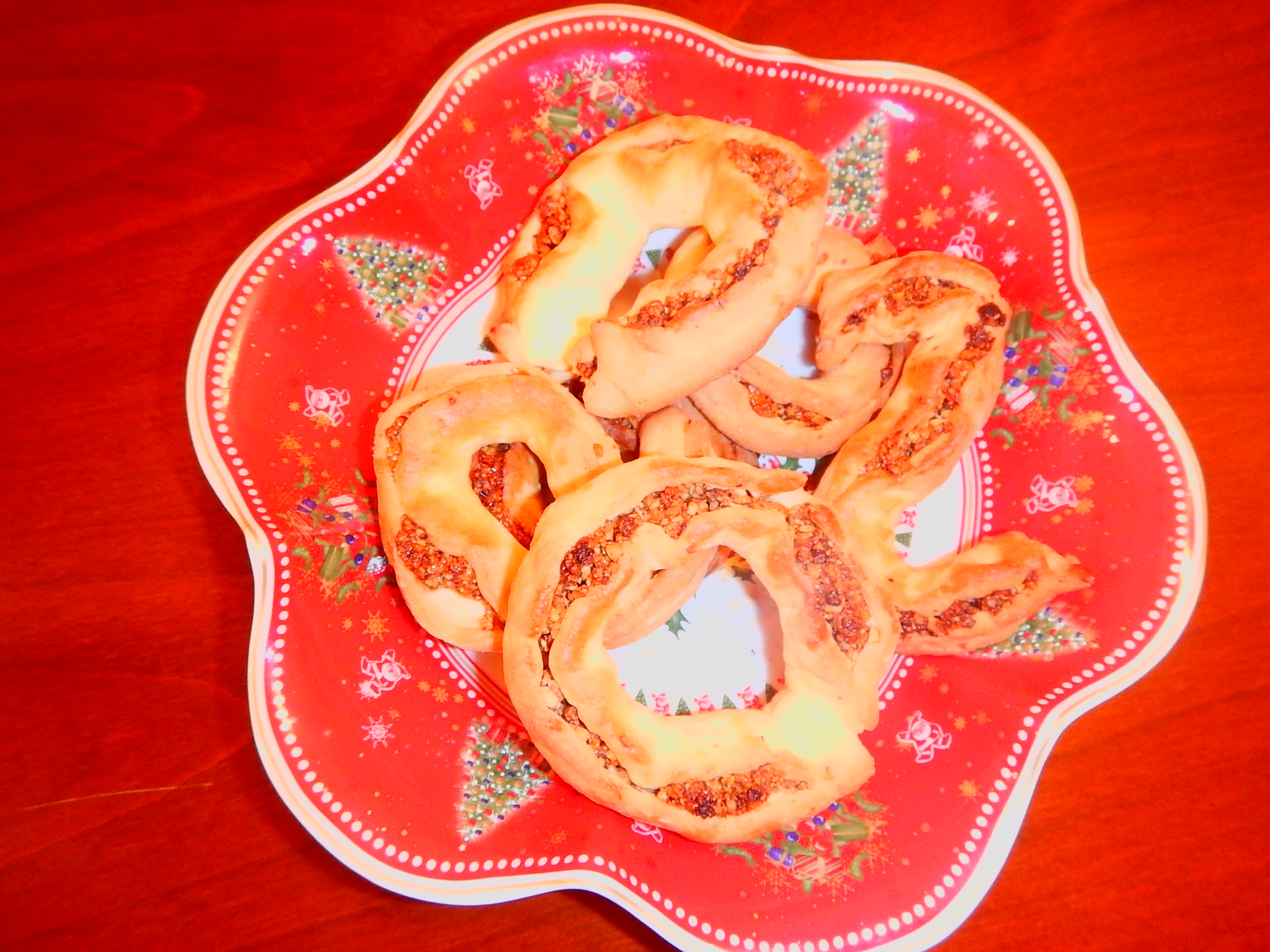 the "Piccillatti" typical biscuits with hazelnuts prepared above all for Christmas at Fondachelli-Fantina, Sicily